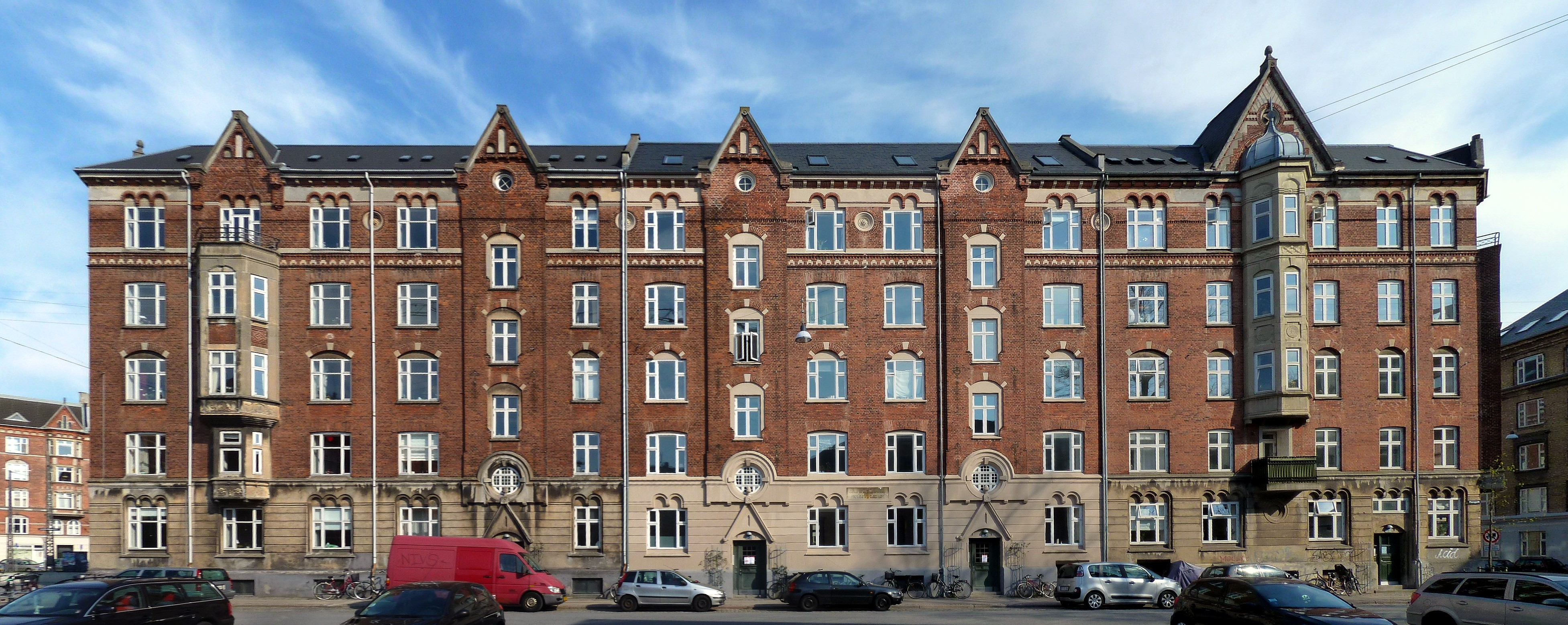 The triangular Apartment block Vrohus located at thewestern end of Rantzausgade, between the streets Florsgade, Laurids Schous Gade (Nørrebroruten) and Hiort Lorentzens Gade, in the Nørrebro district of Copenhagen, Denmark. This si the side facing Florsgade (No. 1-7(